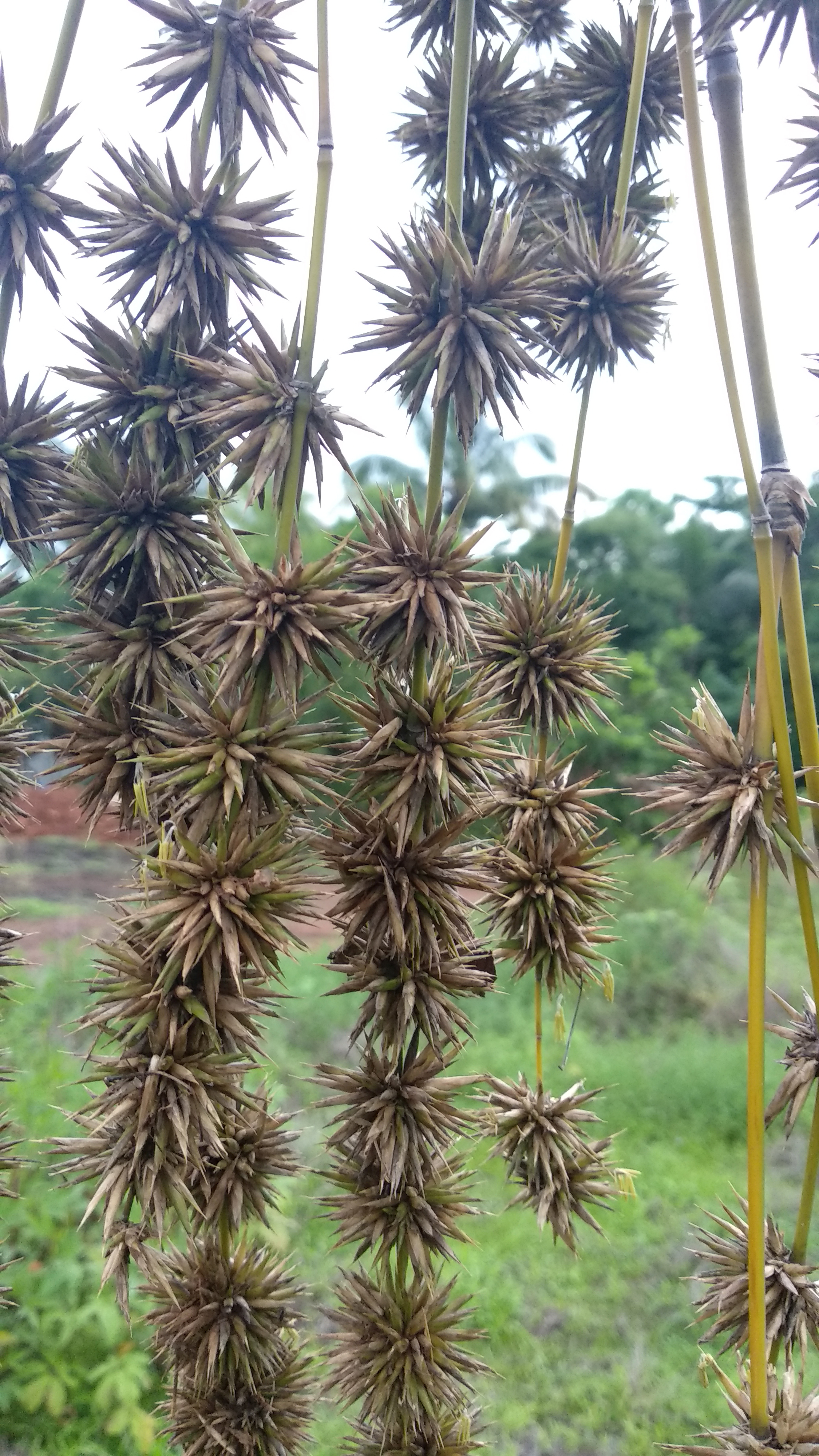 Bamboo seeds_bunch